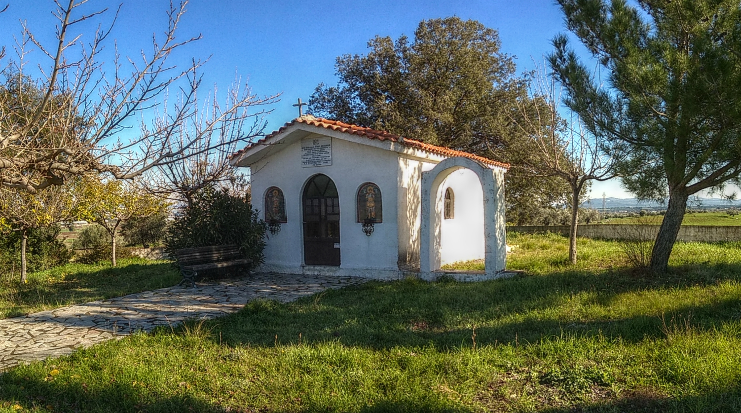 Chapel dedicated to Saint Theodoros according to Greek Orthodox Religion